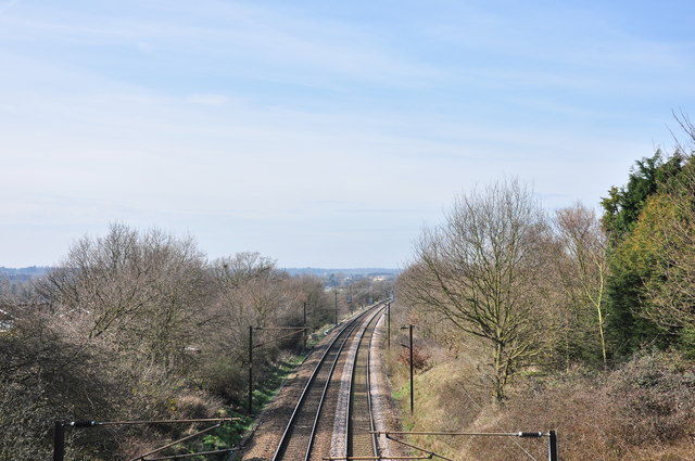 Looking west down the mainline The view from the Ipswich Road bridge towards Colchester station